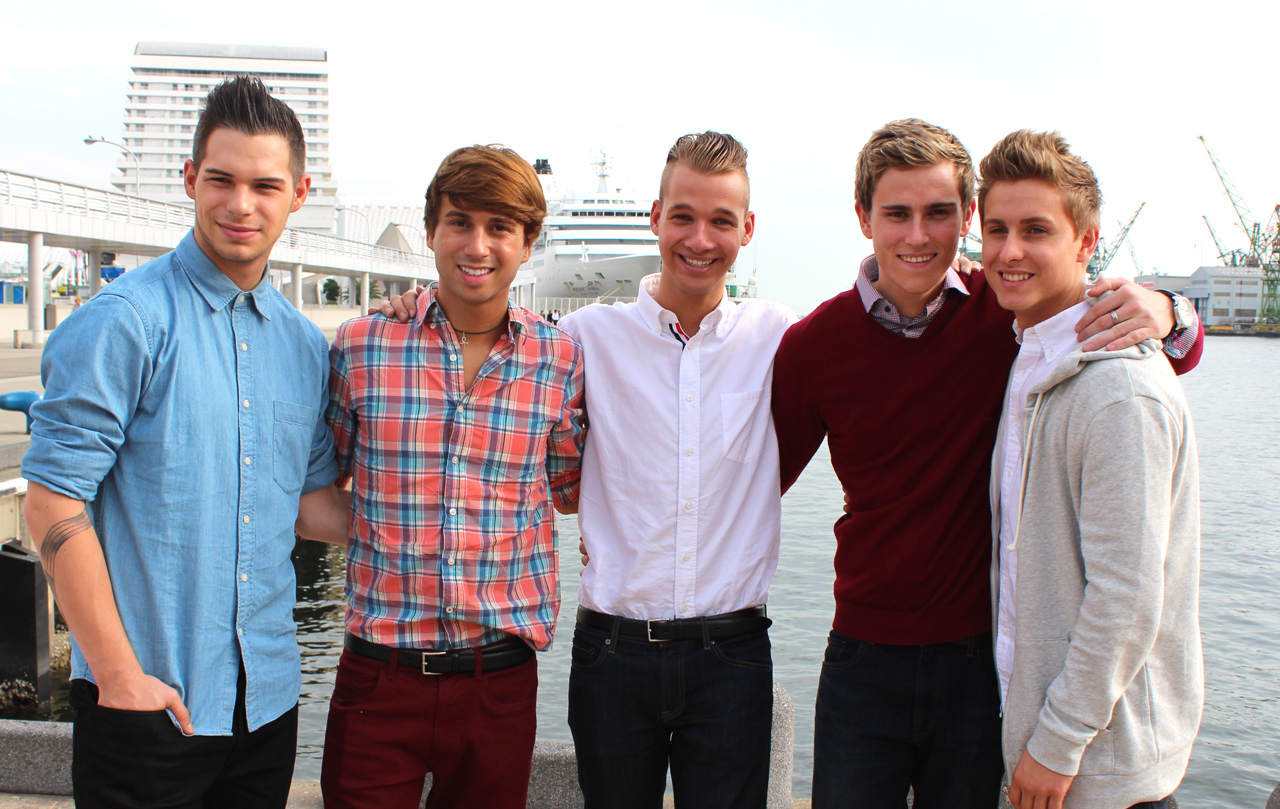 The United in Port of Kobe